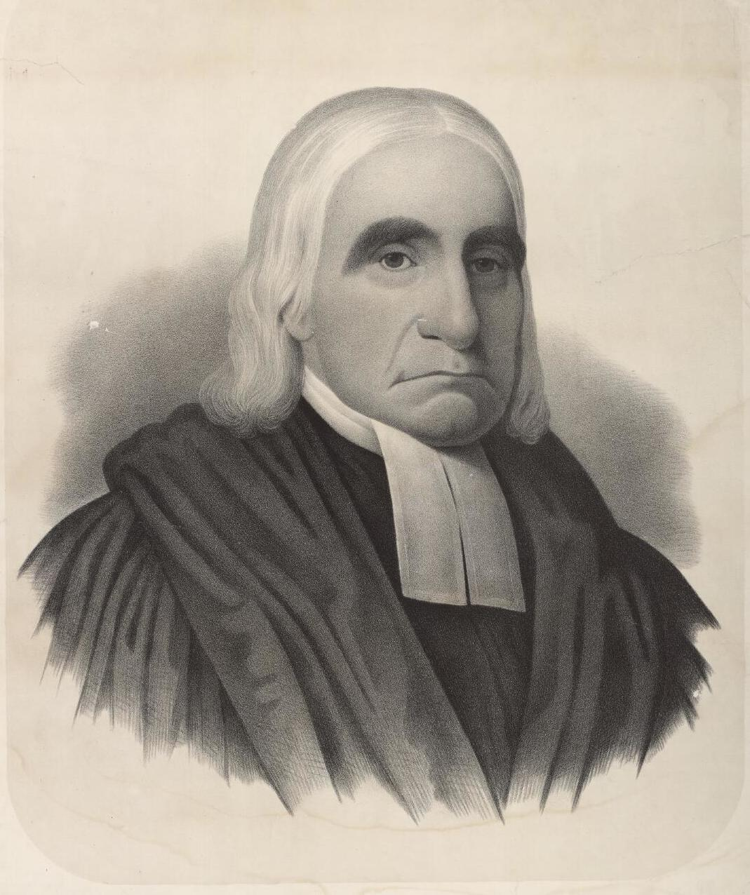 A portrait from the Welsh Portrait Collection at the National Library of Wales. Depicted person: Daniel Rowland – Welsh Calvinistic Methodist leader